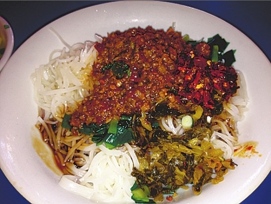 曲靖蒸饵丝